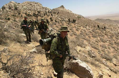 Canadian soldiers from 3PPCLI move into the hills to search for Al Qaeda and Taliban fighters after an air assault onto an objective north of Qualat, Afghanistan. The soldiers are participating in Operation Cherokee Sky in support of Operation Enduring Freedom. Photo by Staff Sgt. Robert Hyatt, USA, July 2002